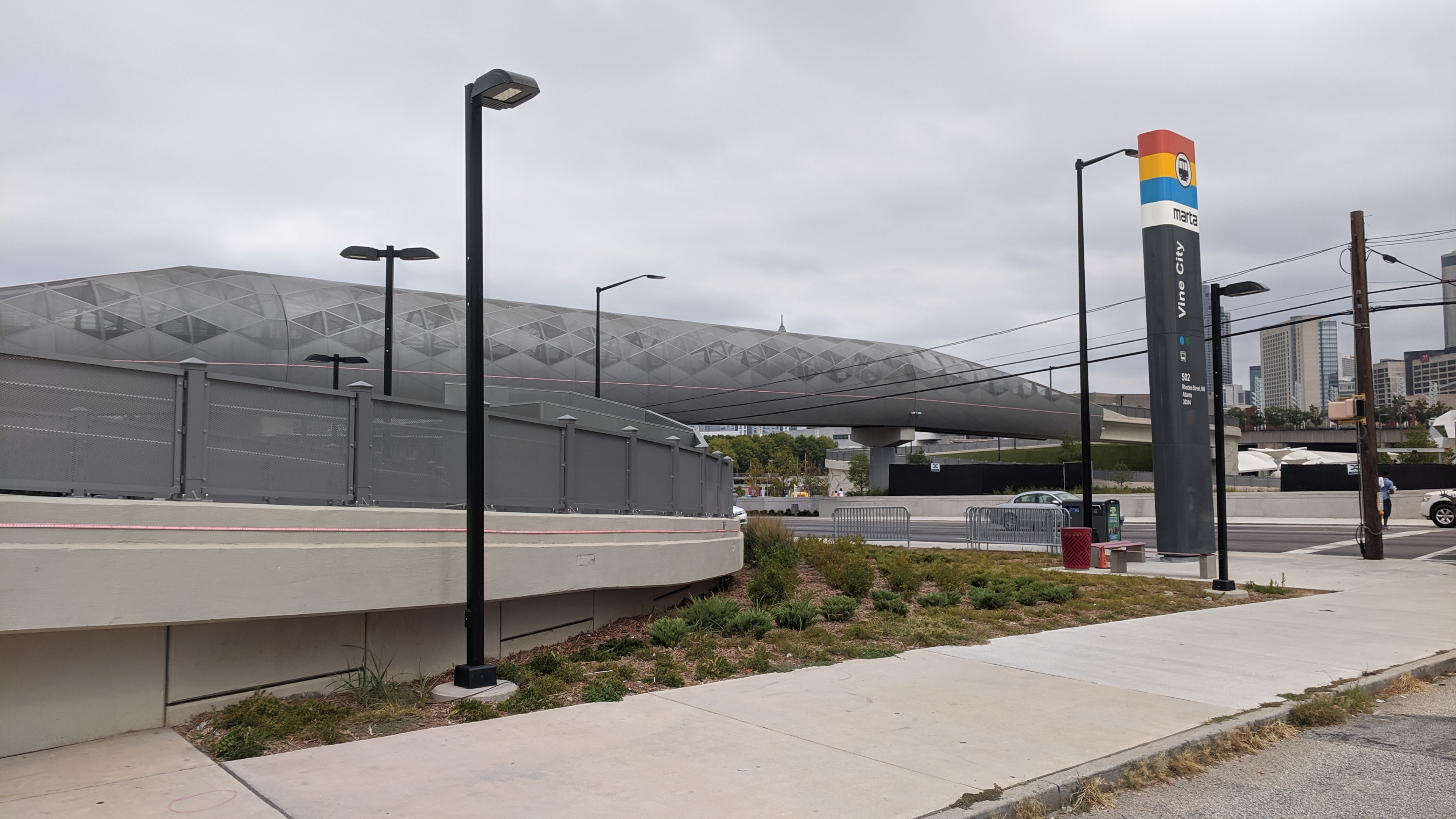 The Mercedes-Benz Stadium Pedestrian Bridge is a pedestrian only bridge that connects the stadium of the Atlanta Falcons and Atlanta United FC to parking lots west of the stadium, across Northside Drive, as well as the Vine City MARTA Station, a secondary station for game days. The bridge is criticized for costing too much, ~$33 million, and taking funds from a TSPLOST it was not intended to.